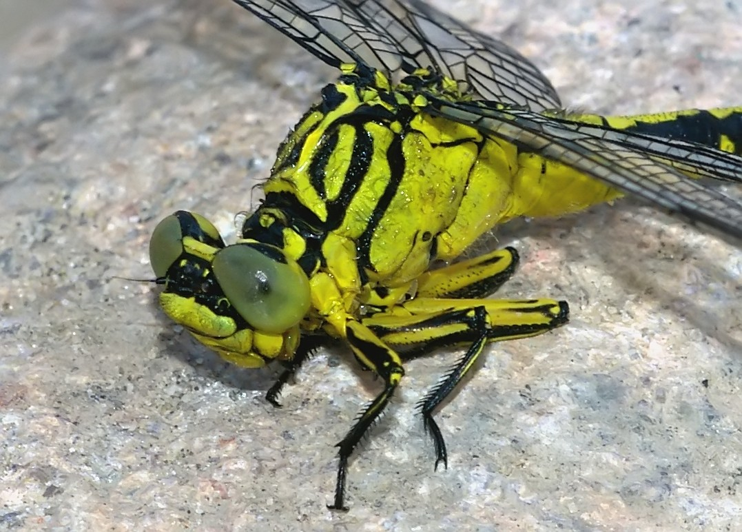 A female specimen of the River Clubtail, Gomphus (Stylurus) flavipes. Close-up of the specific chest drawing. Note: The unusual posture of the animal's legs is due to the fact that it was half-drowned and lifeless at the time of photo shoot (fished from the surface of a pond). Later, it has recovered unexpectedly.